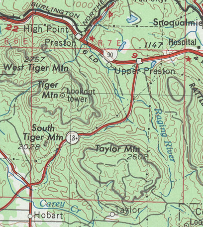 A zoomed in section of the 1948 Wenatchee USACE Topographic map, focusing on the area around Tiger Mountain. Scale 1:250,000. Full map